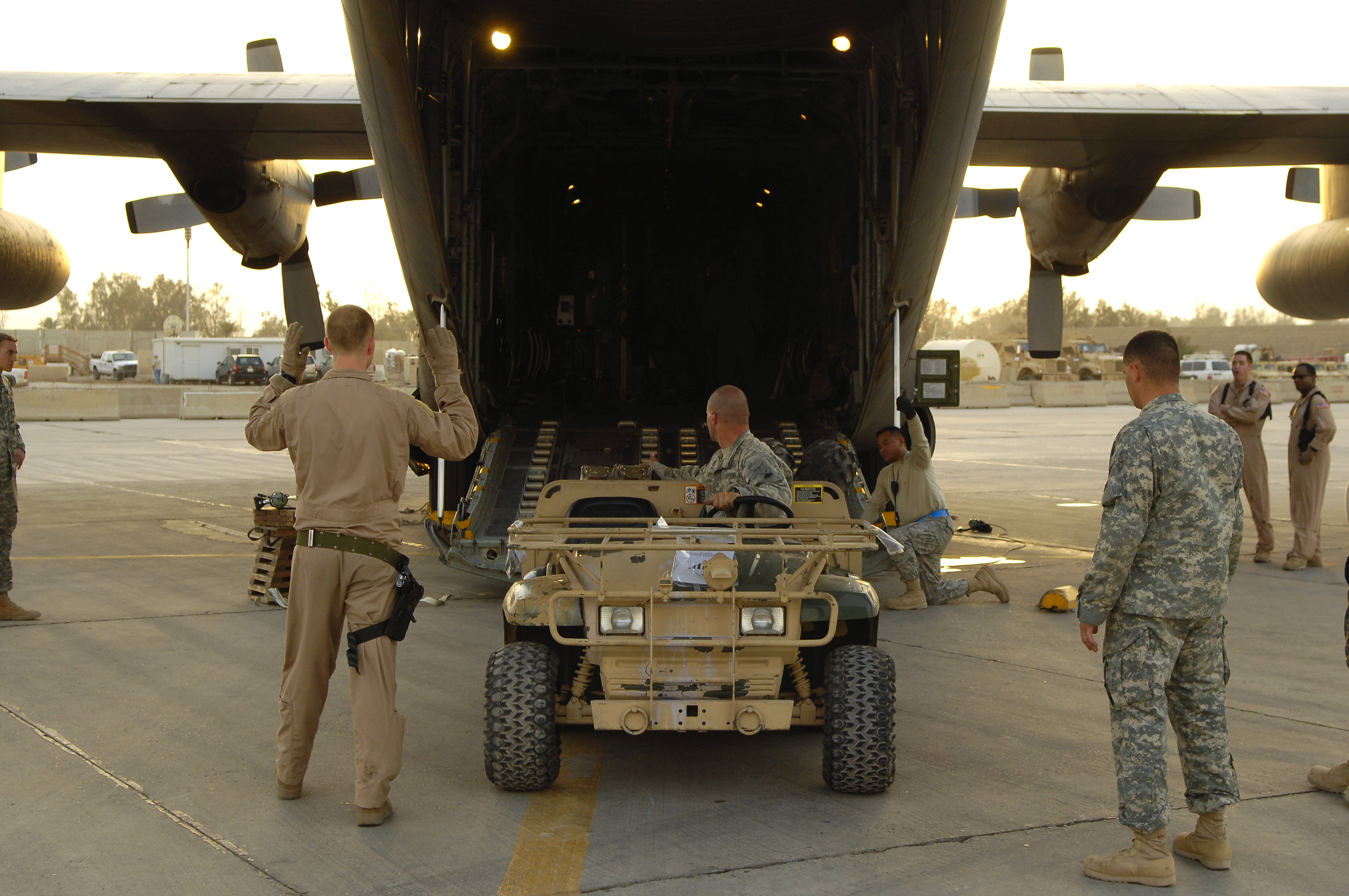 A U.S. Army Soldier drives a vehicle into a C-130 Hercules aircraft at Sather Air Base, Iraq, March 30, 2008. The vehicle is being flown to Basra, Iraq. (U.S. Air Force photo by Tech. Sgt. Jeffrey Allen) (